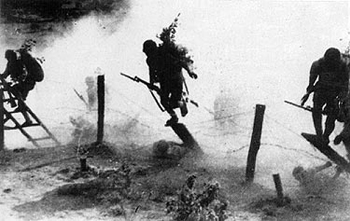 Soldiers in camouflage running during the Battle of West Hubei.